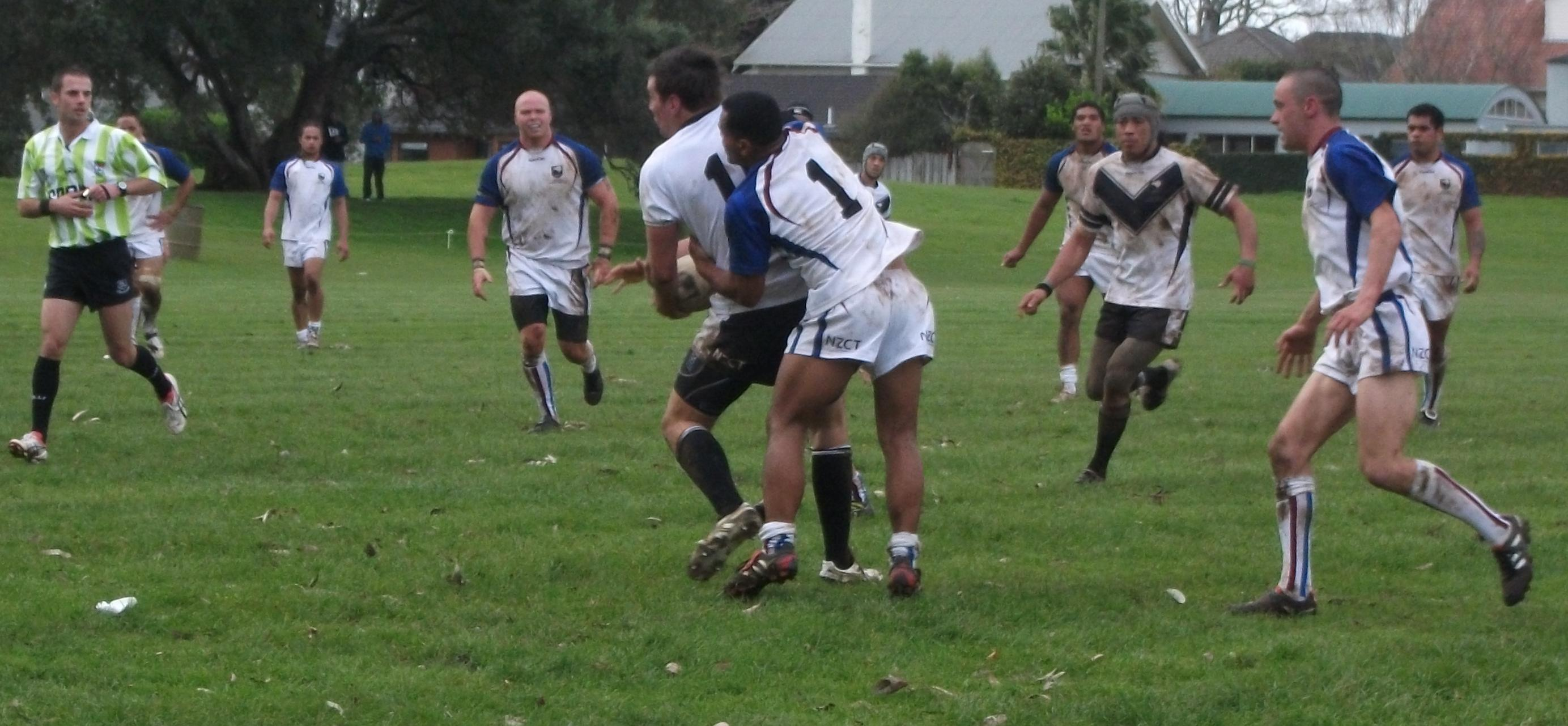 The Auckland Zone rugby league team vs the South Island rugby league team at Cornwall Park Stadium on 25 September 2010. The referee is Shane Rehm.